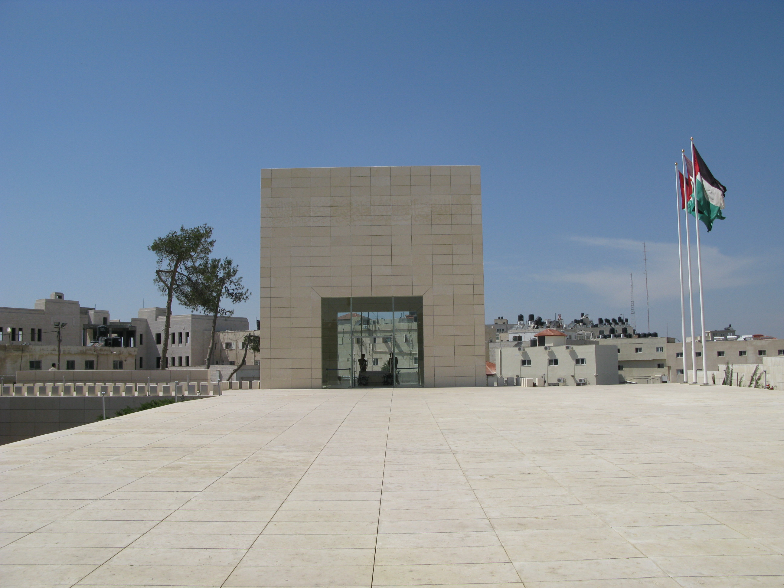 Yasser Arafat's mausoleum within the PA compound, Ramallah